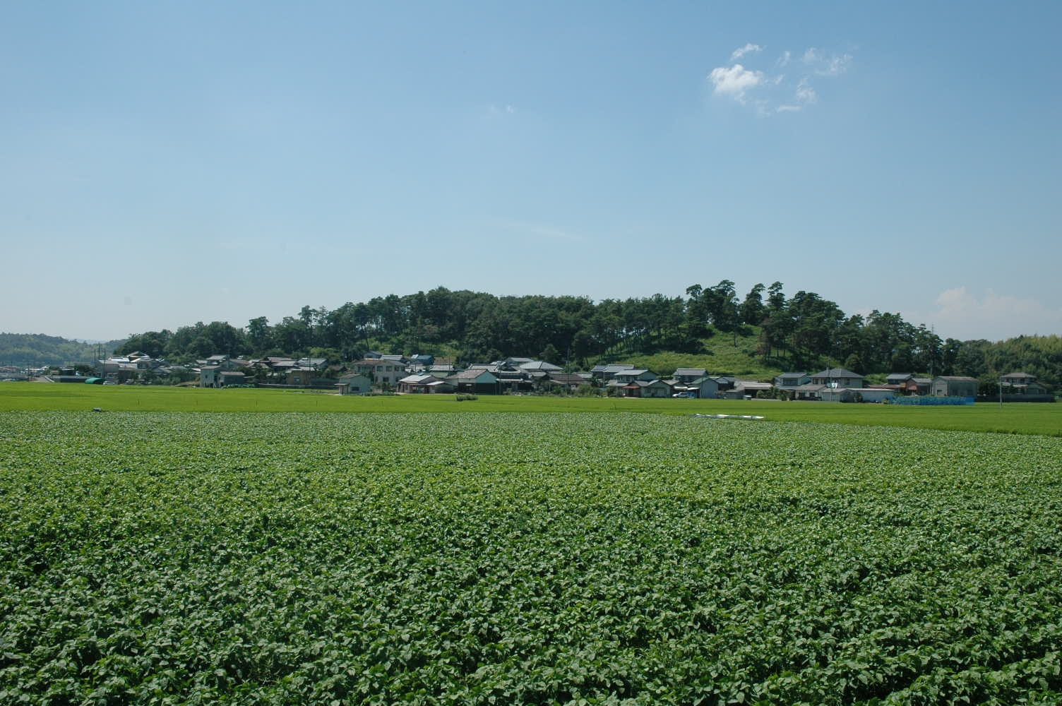 Tsukuriyama Kofun(old burial mound) in Soja City,Okayama Prefecture,Japan